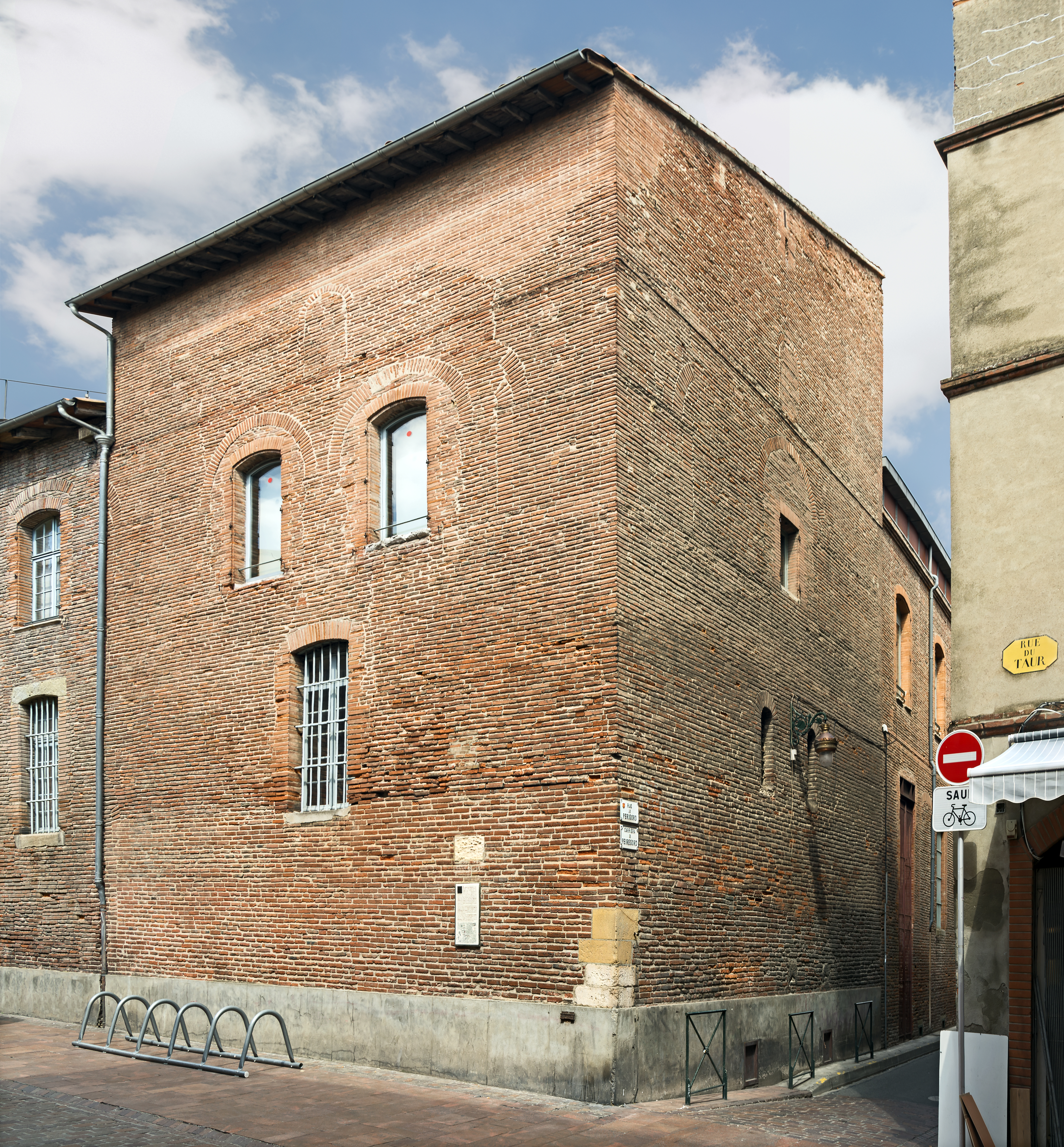 Maurand tower; Currently ESAV (Graduate School of audiovisual) in the historic center of Toulouse. Old fortified tower, prior to the twelfth century.